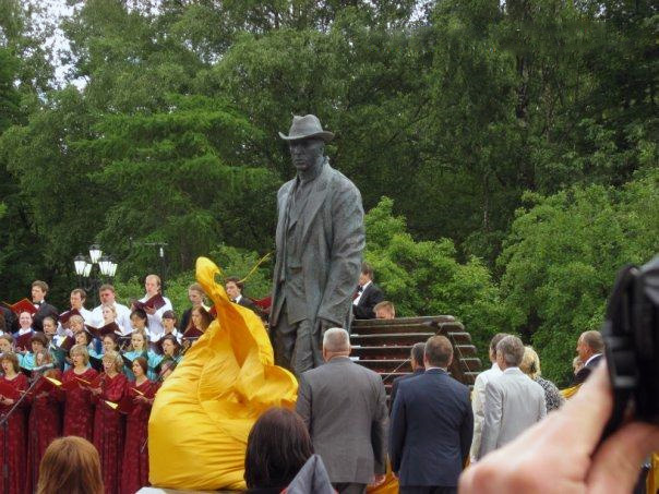 The opening of Rachmaninoff monument in Novgorod, Russia